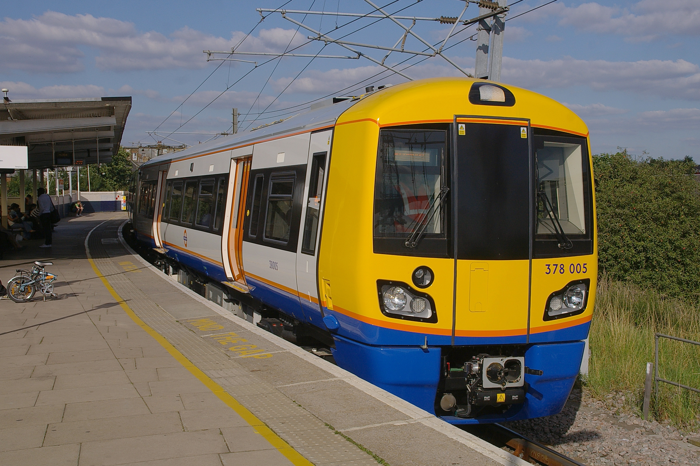 London Overground 378005 at Willesden Junction railway station with a North London Line service to Richmond.